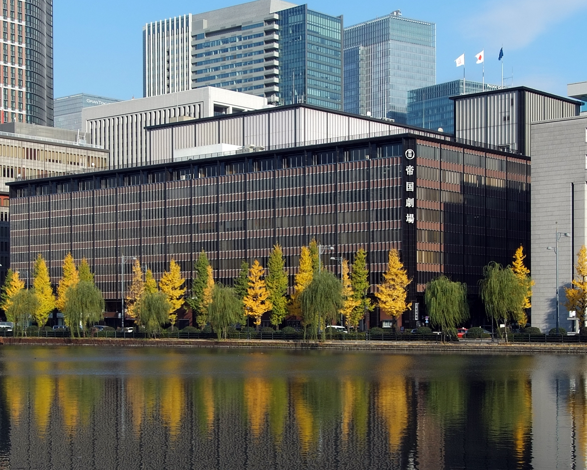 Imperial Garden Theater, at Marunouchi Tokyo Japan, design by Yoshiro Taniguchi in 1966.